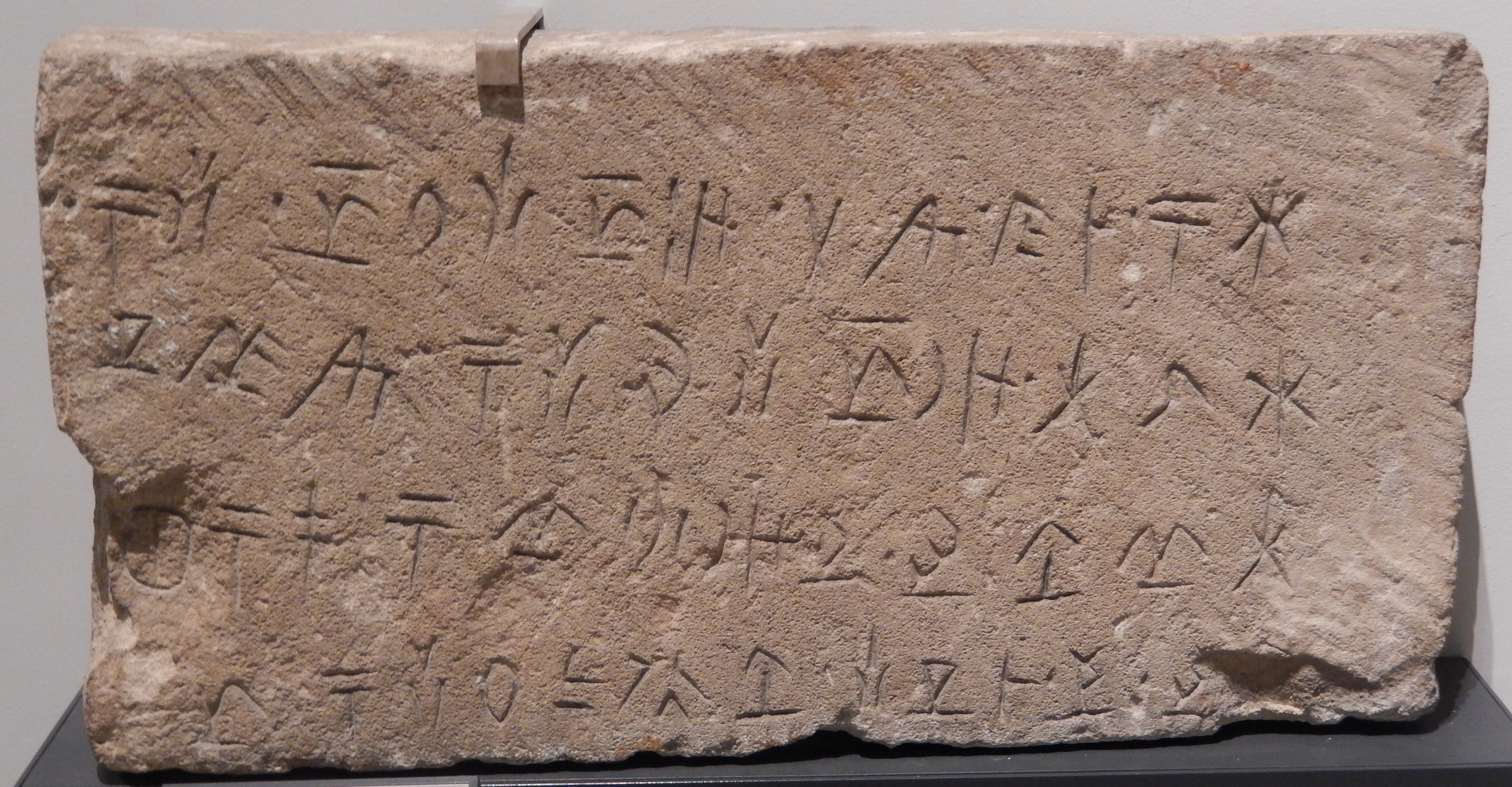 Inscription in in Eteocypriot (Cypriot syllabary), cica 500-300 BC, probably from Amathous. Donated to the Ashmolean Museum by Prof. J. L. Myres in 1895. AN Inscription 118.